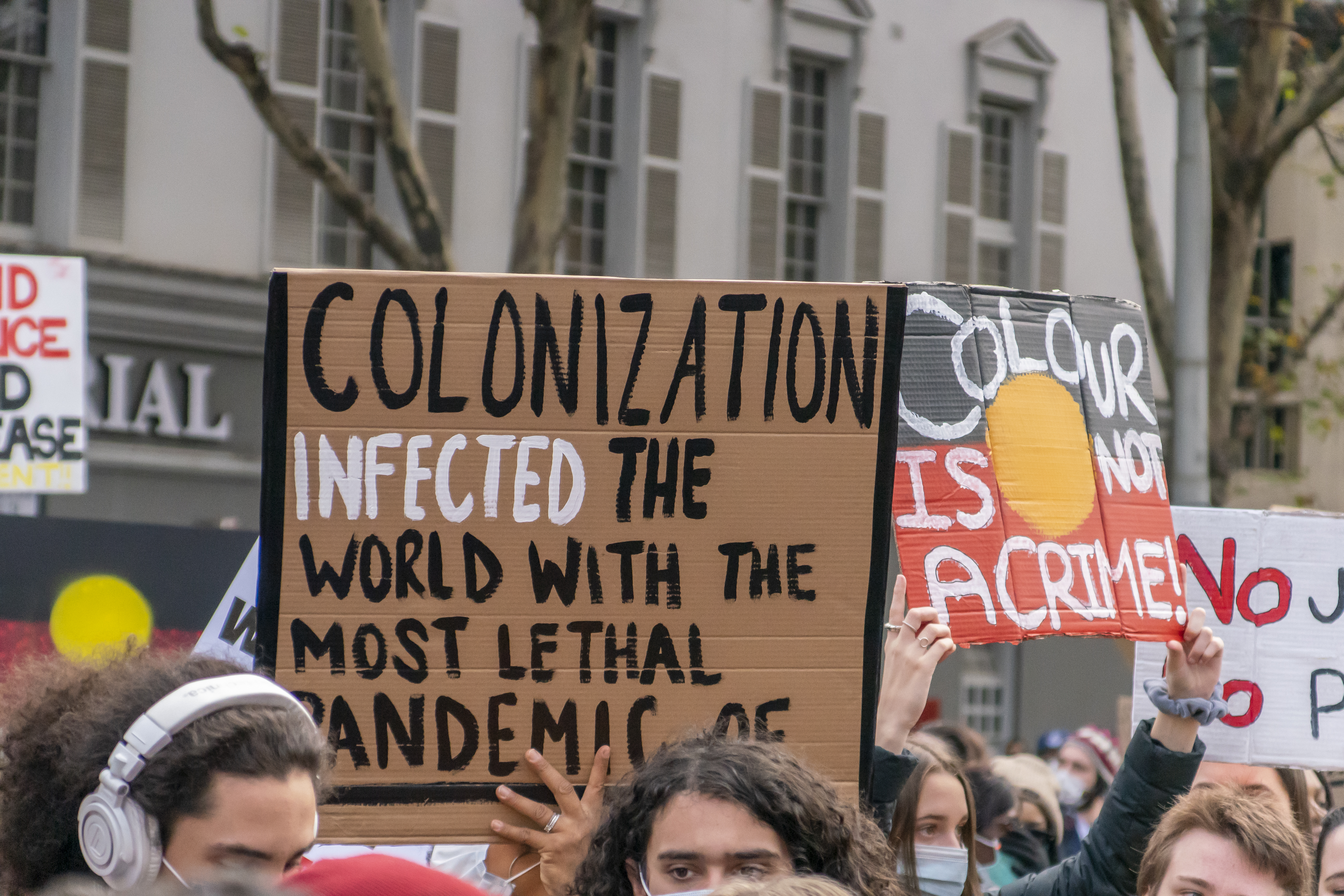 Black Lives Matter protest in Melbourne on 6 June 2020